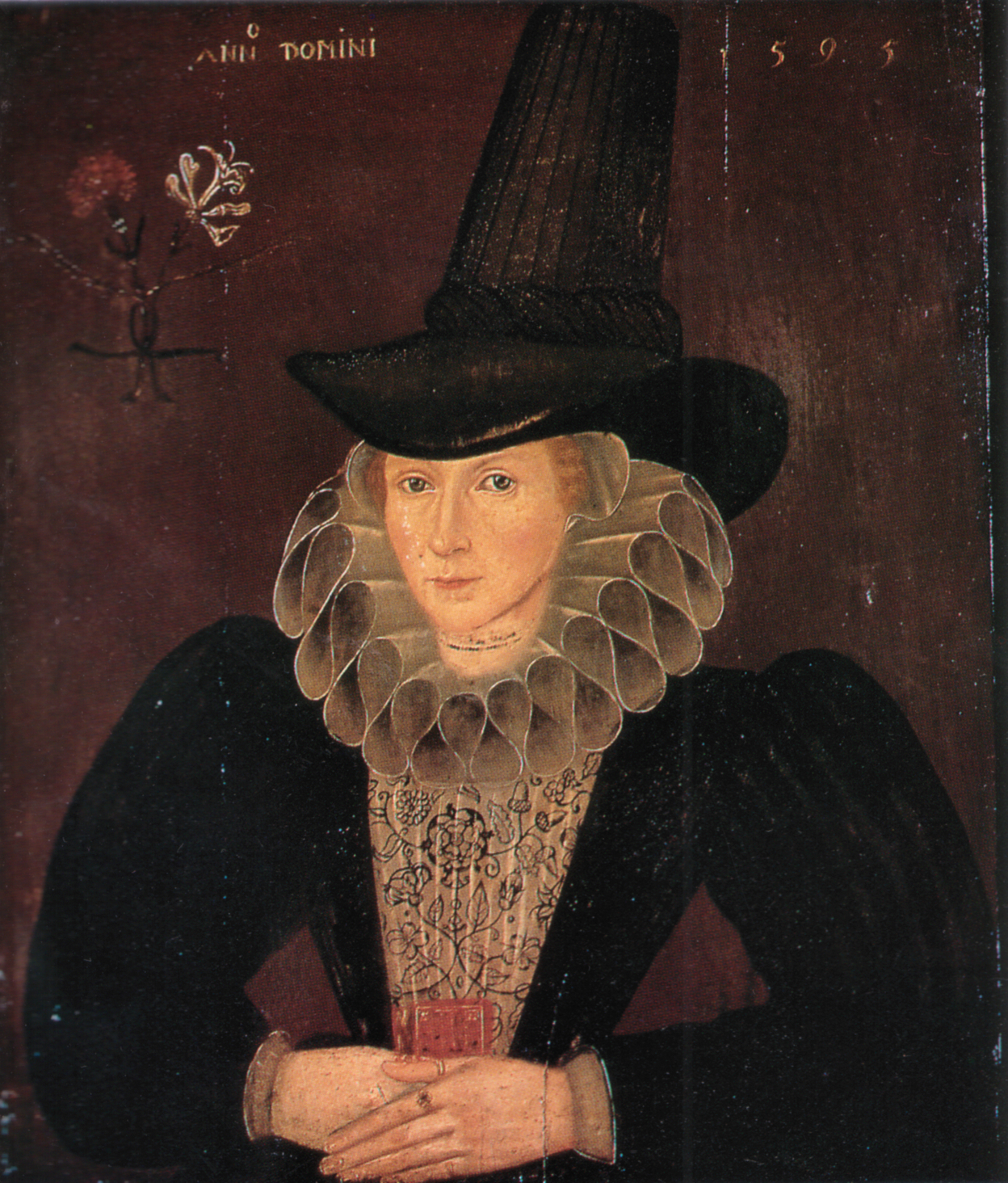 Esther Inglis, Mrs Kello